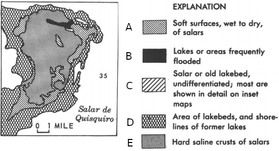 Salar de Quisquiro.